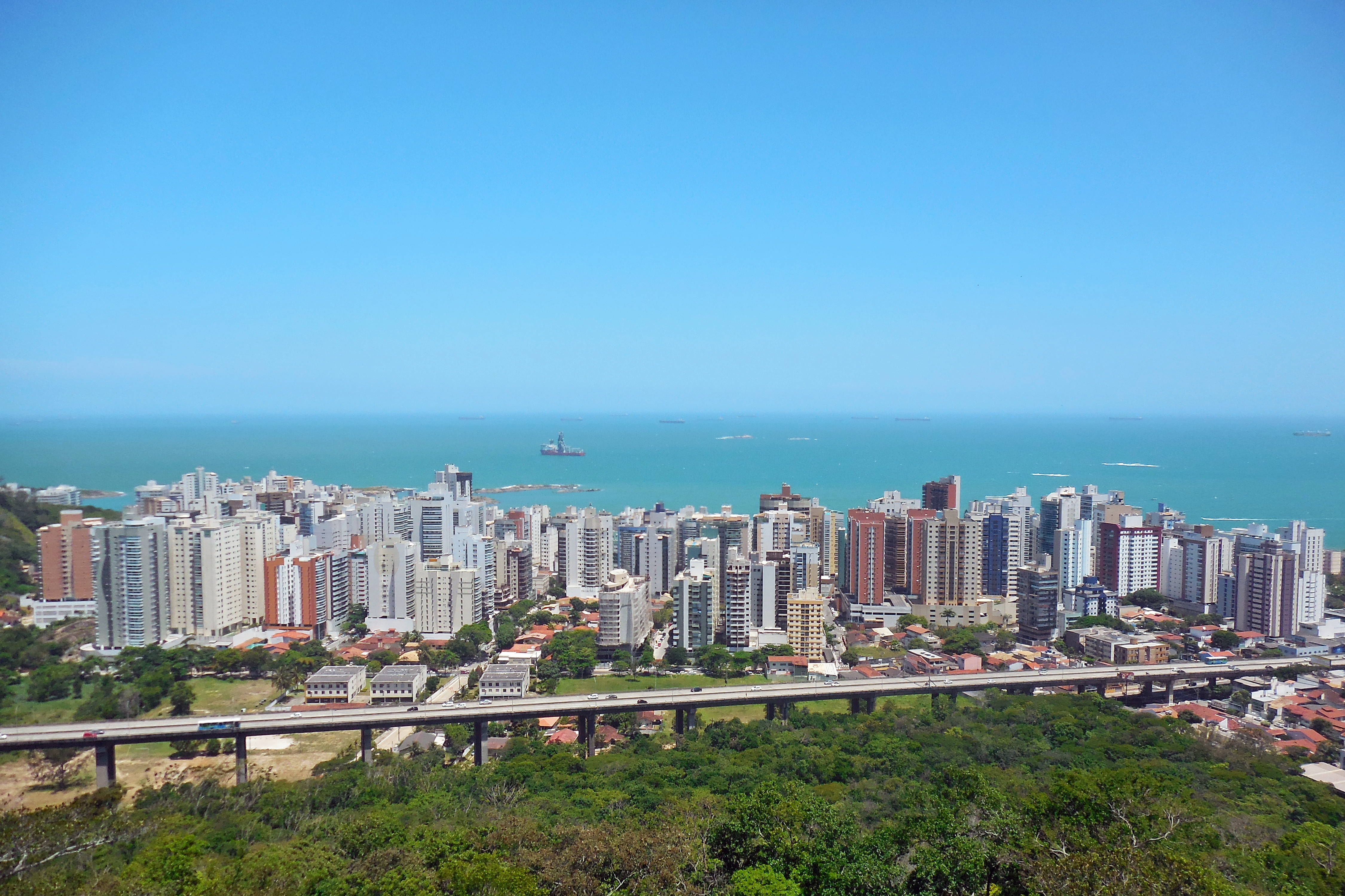 View of the Praia da Costa neighborhood seen from of the Convento da Penha, in Vila Velha, Espírito Santo, Brazil.